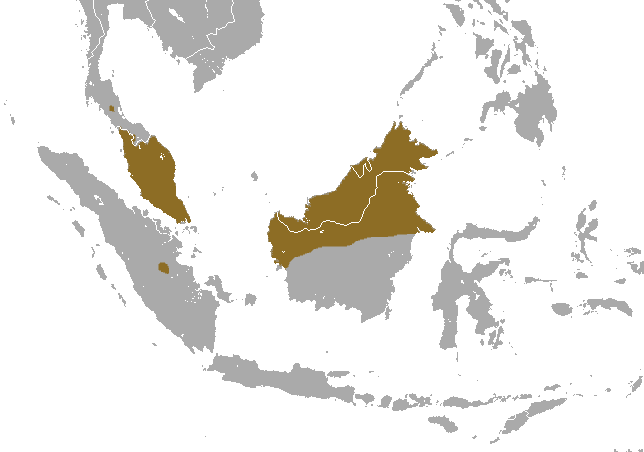 Spotted-winged Fruit Bat (Balionycteris maculata) range